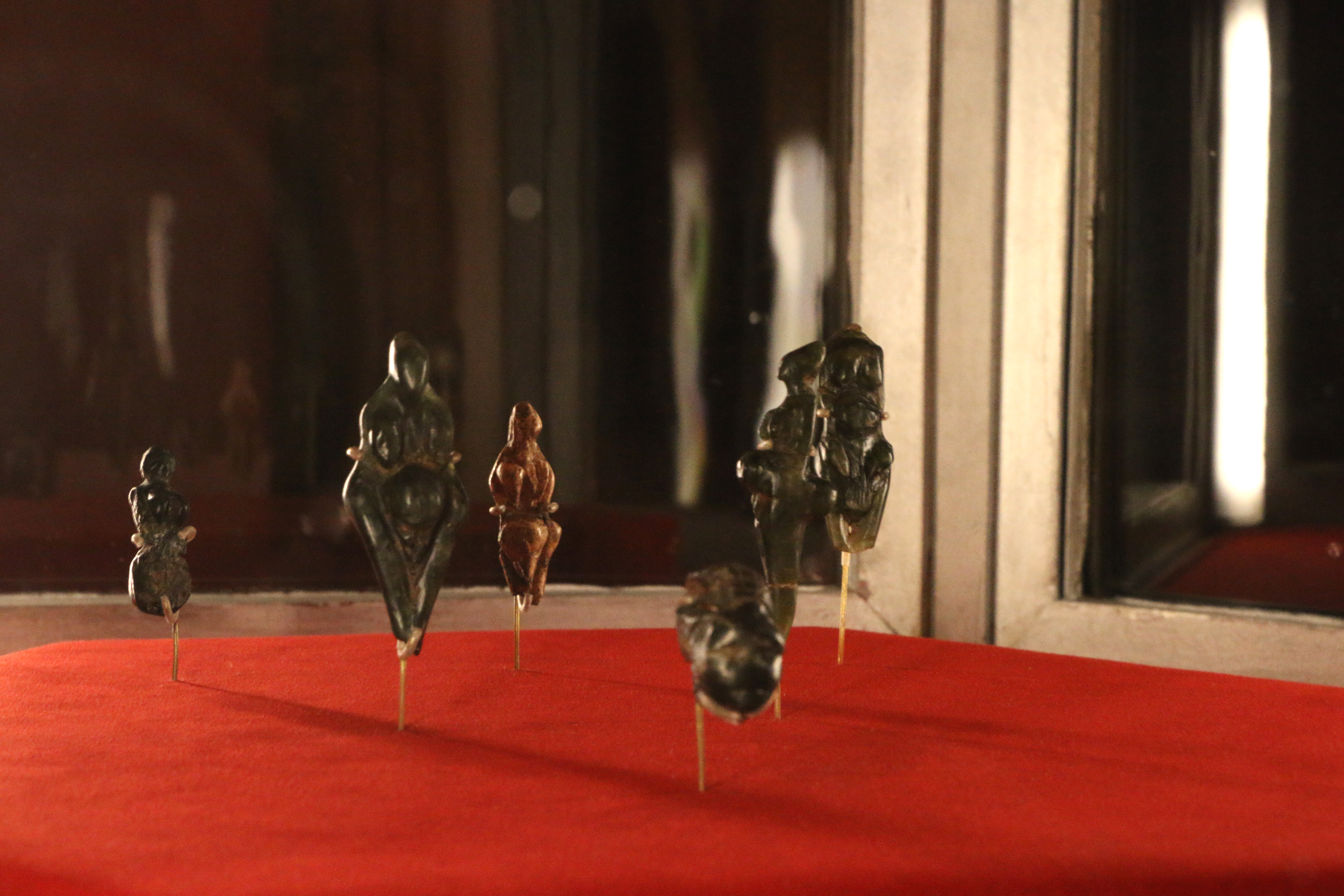 From the National Archaeological Museum of Saint-Germain-en-Laye near Paris France - Several venus figurines from Menton's cave in France.